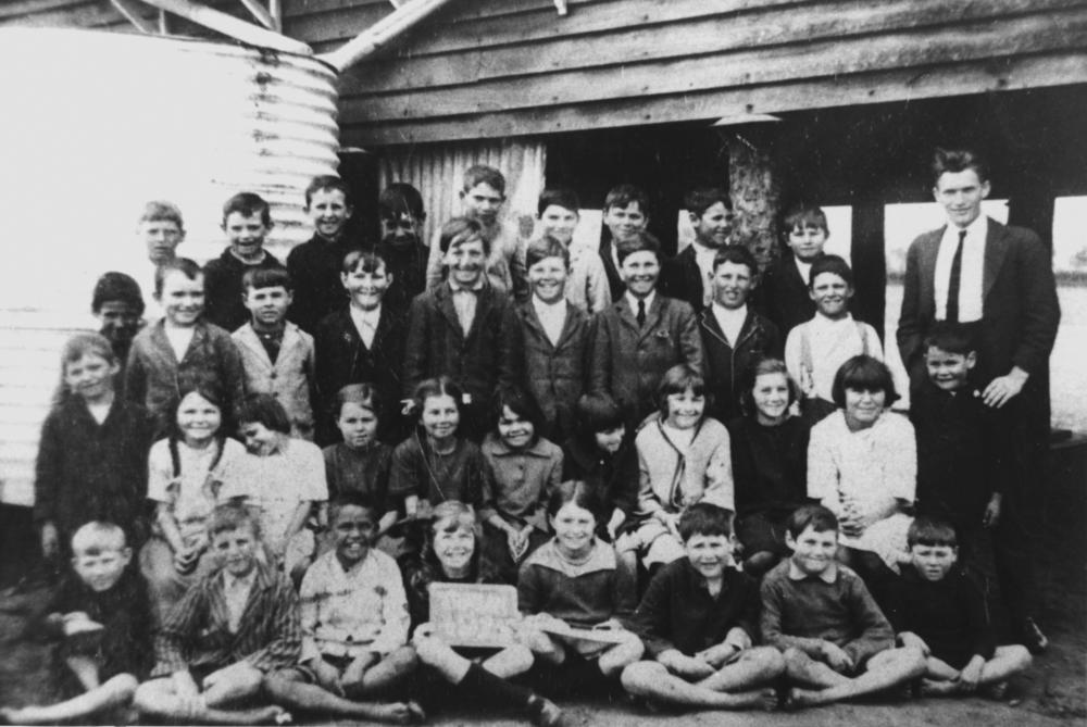 Thallon State School group, 1923. Thomas Douglas King is Head Teacher. (Description supplied with photograph.).